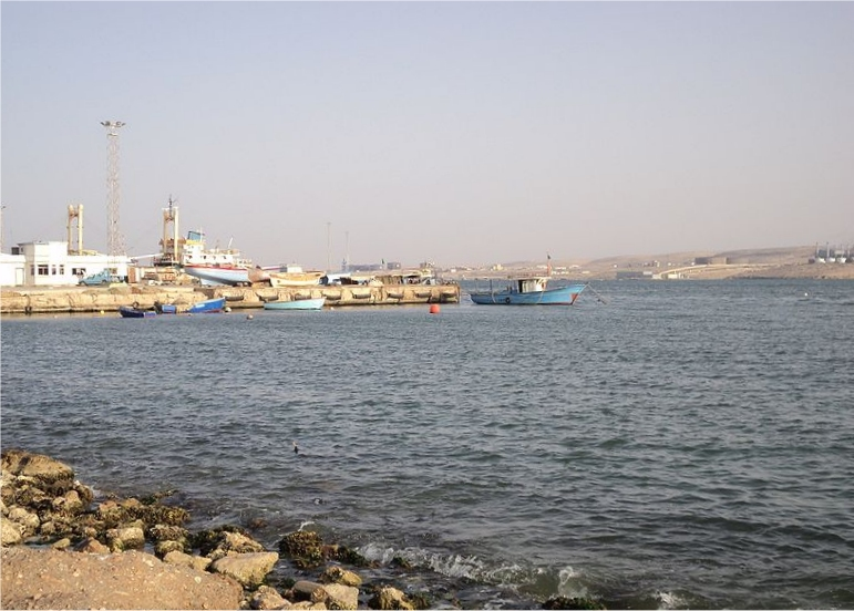 Port of the Libyan city of Tobruk.